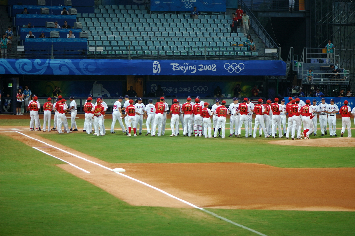 Baseball at the 2008 Summer Olympics - China vs USA